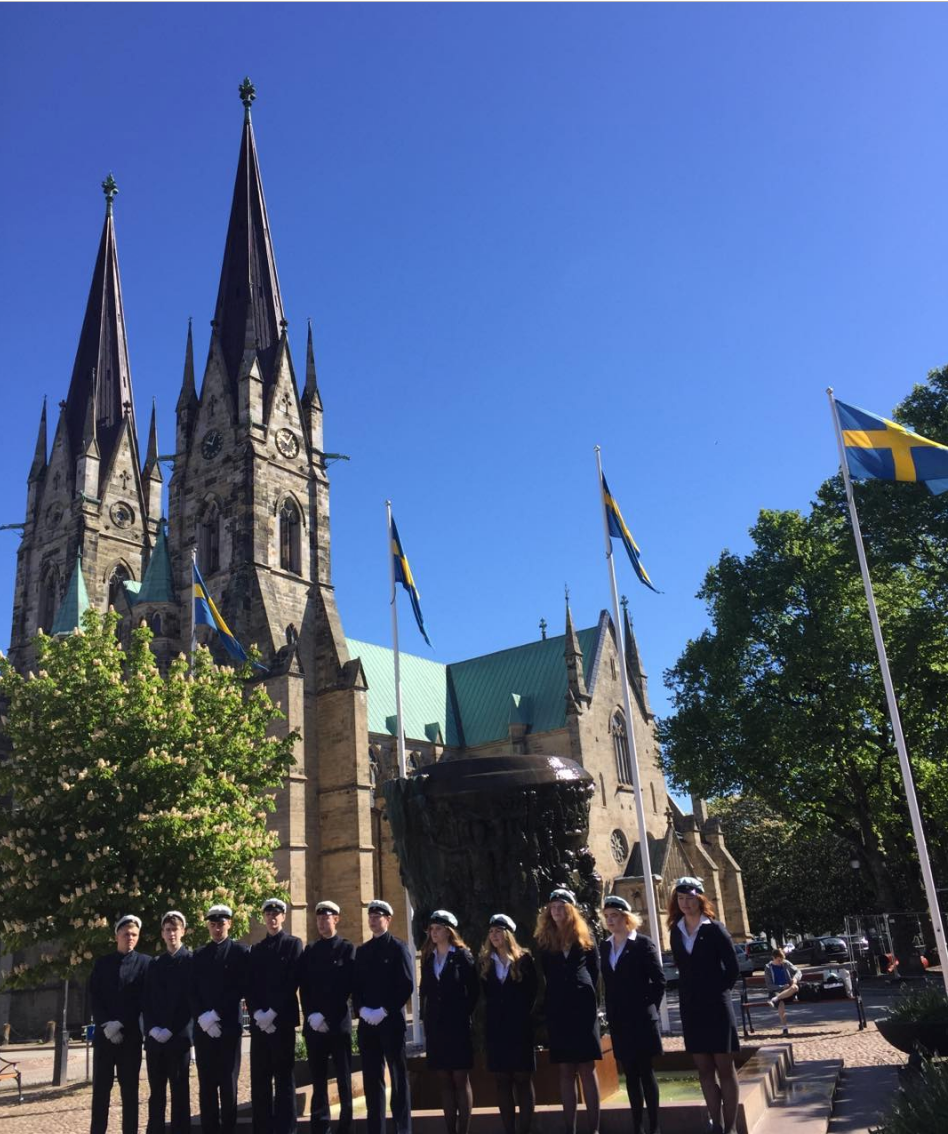 Djäknedagen is celebrated every year in Skara with the choirs participating